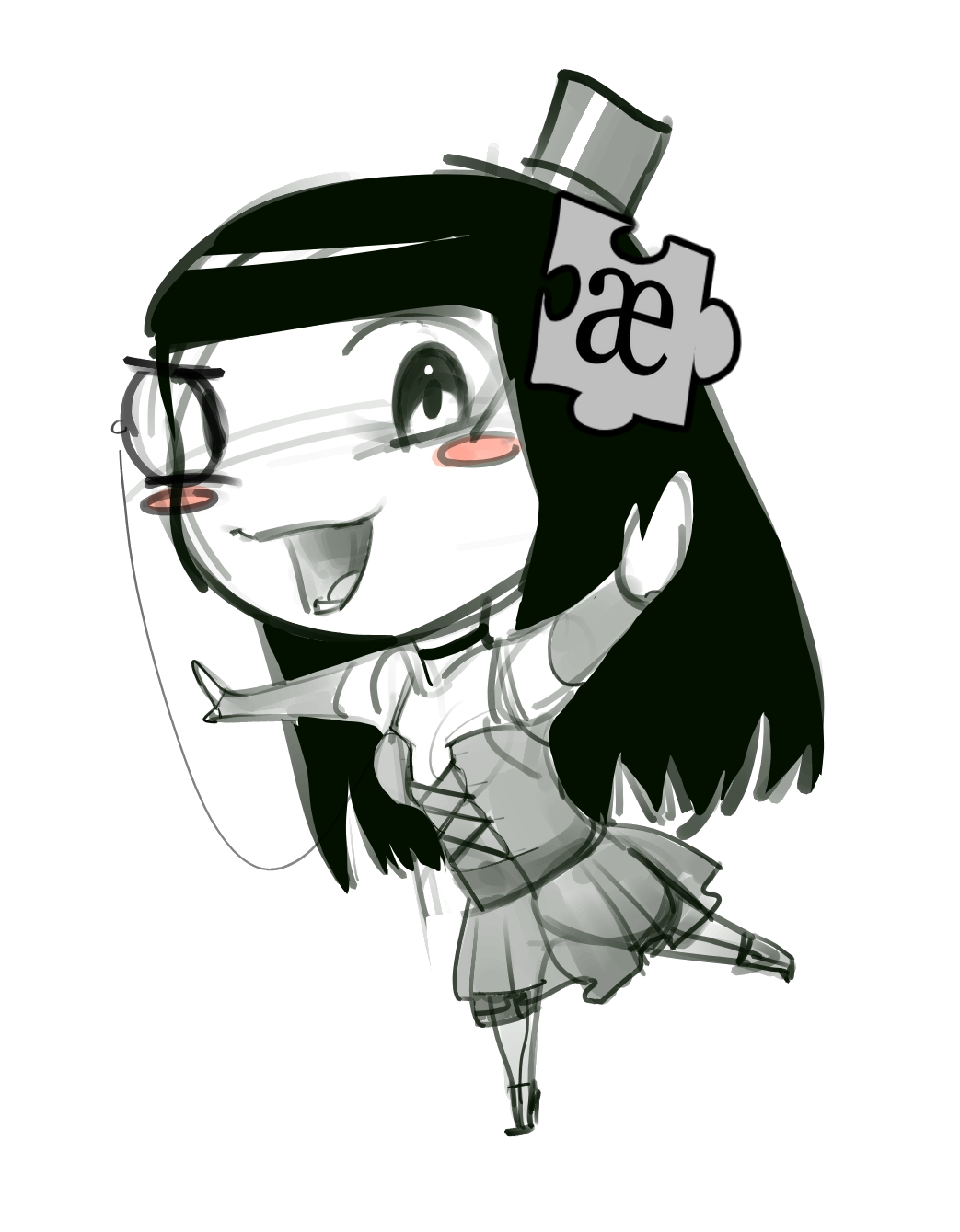 AE-tan - the mascot of Encyclopedia Dramatica